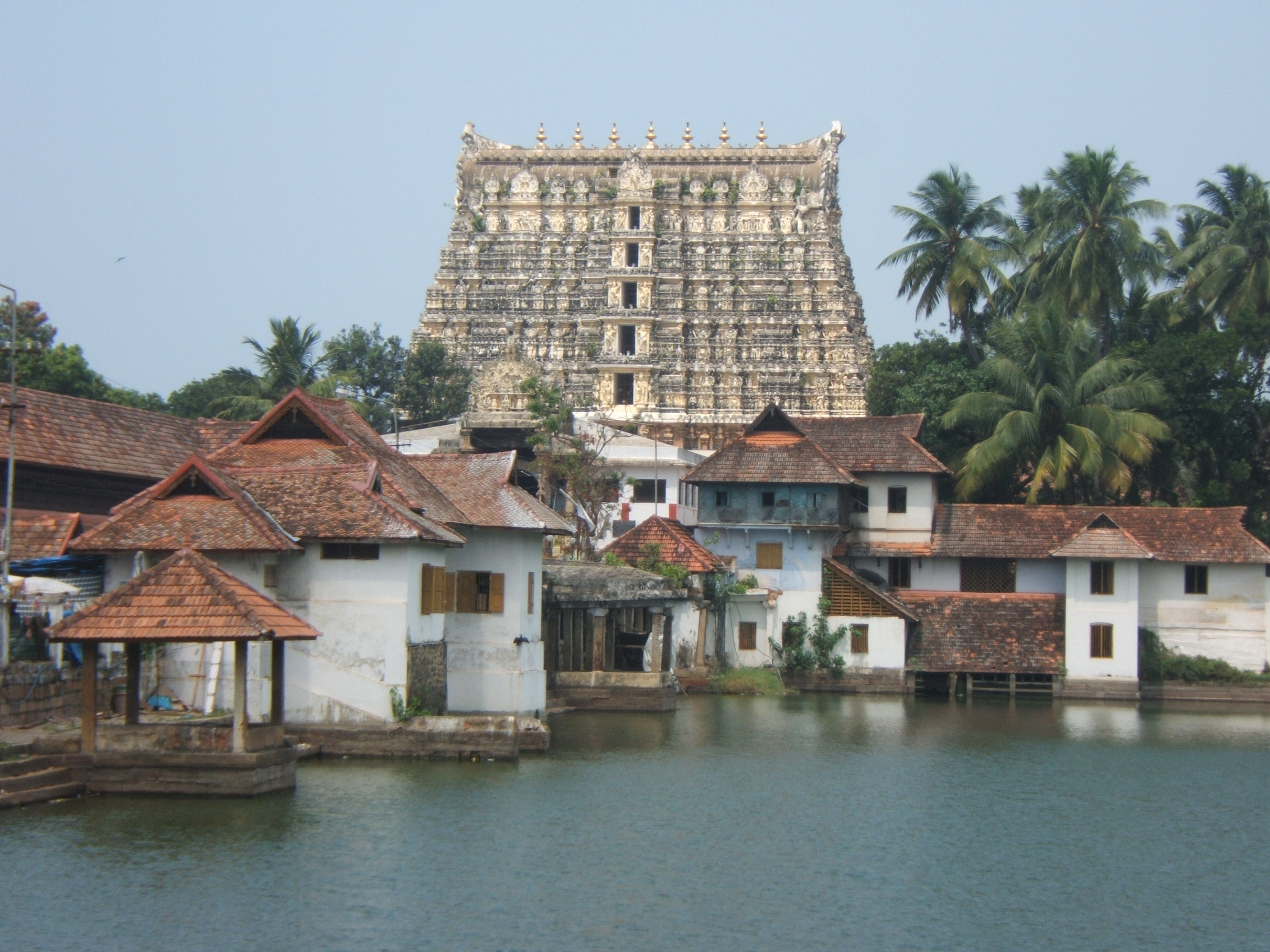 Padmanabhaswamy Temple